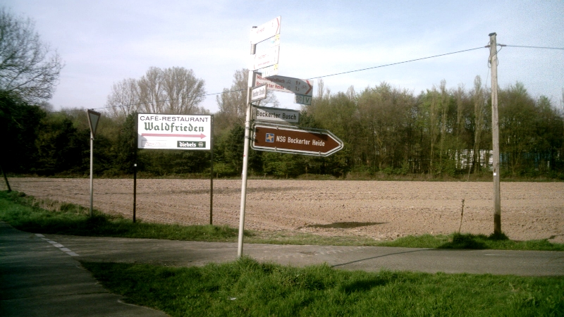 Fingerpost in Bockerter Heide nature reserve, Viersen, Germany.